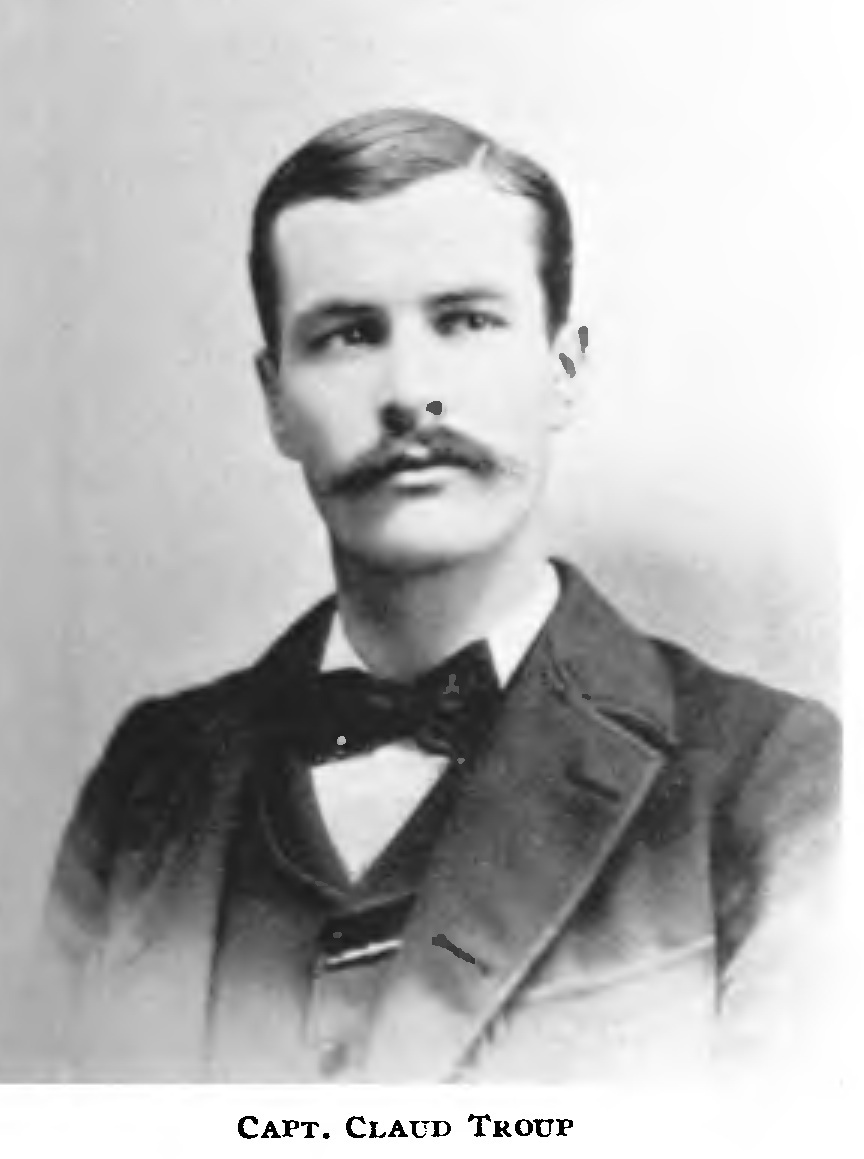 photograph of Claud Troup, steamboat captain